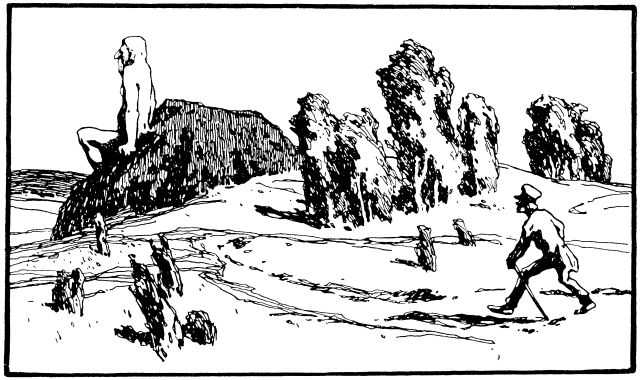 Illustration by Otto Ubbelohde to the fairy tale The Giant and the Tailor